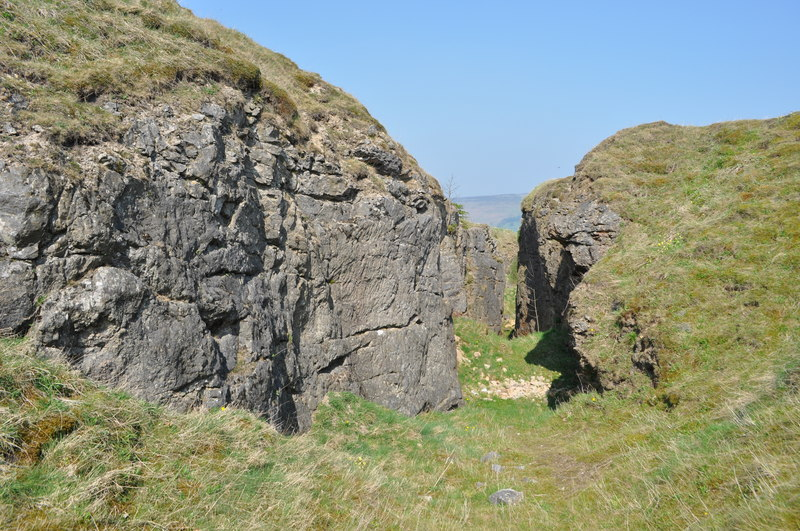 Dirtlow Rake, near to Castleton, Derbyshire, Great Britain. Dirtlow Rake is a series of open and underground workings following a series of mineral veins. Rake is another meaning for vein, although the veins are long and sometimes rather thick. This rake runs along a fault line, horizontal slikensides have been observed, vertical displacement has been estimated at 20-30m. The lead and Zinc veins here (Galena/Sphalerite) have been mined for centuries, later on the gangue minerals (waste) became valuable and mined in their own right. Notably calcite, barytes and flurospar, its also worth mentioning not far away the flurospar 'blue john' is/was extracted. The veins formed when around 2km down hot fluids around 120 degrees C dissolved ions from the shales alongside SK1383 : Mam Tor . These fluids moved laterally before reaching oxygenated and slightly sulphuric ground waters in the limestone, this caused the minerals to precipitate out. These waters moved along cracks and faults. The site is on private land and permission to enter must be sought. This description was sourced from 'The geological setting of the lead mines in the northern part of the White Peak, Derbyshire' by Trevor D Ford (2010). Care must be taken in this area as there are hidden shafts (open), the most dangerous ones have grills.